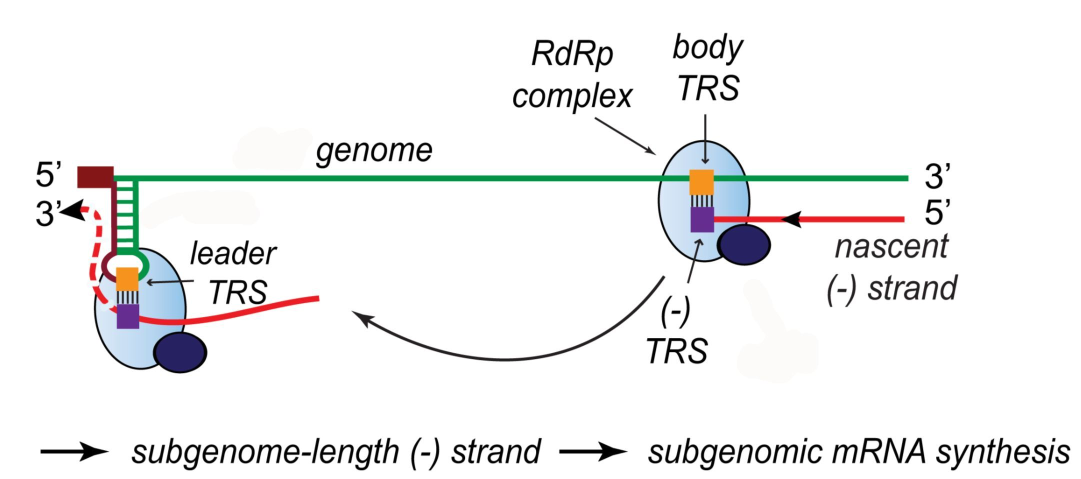 Model for transcription in nidoviruses. Discontinuous minus-strand RNA synthesis results in a nested set of subgenome-length minus strands that serve as templates for sg mRNA synthesis. The process is also guided by a base pairing interaction between the TRS complement [(−)TRS] at the 3′ end of the nascent minus-strand and the genomic leader TRS, present in a RNA hairpin structure.